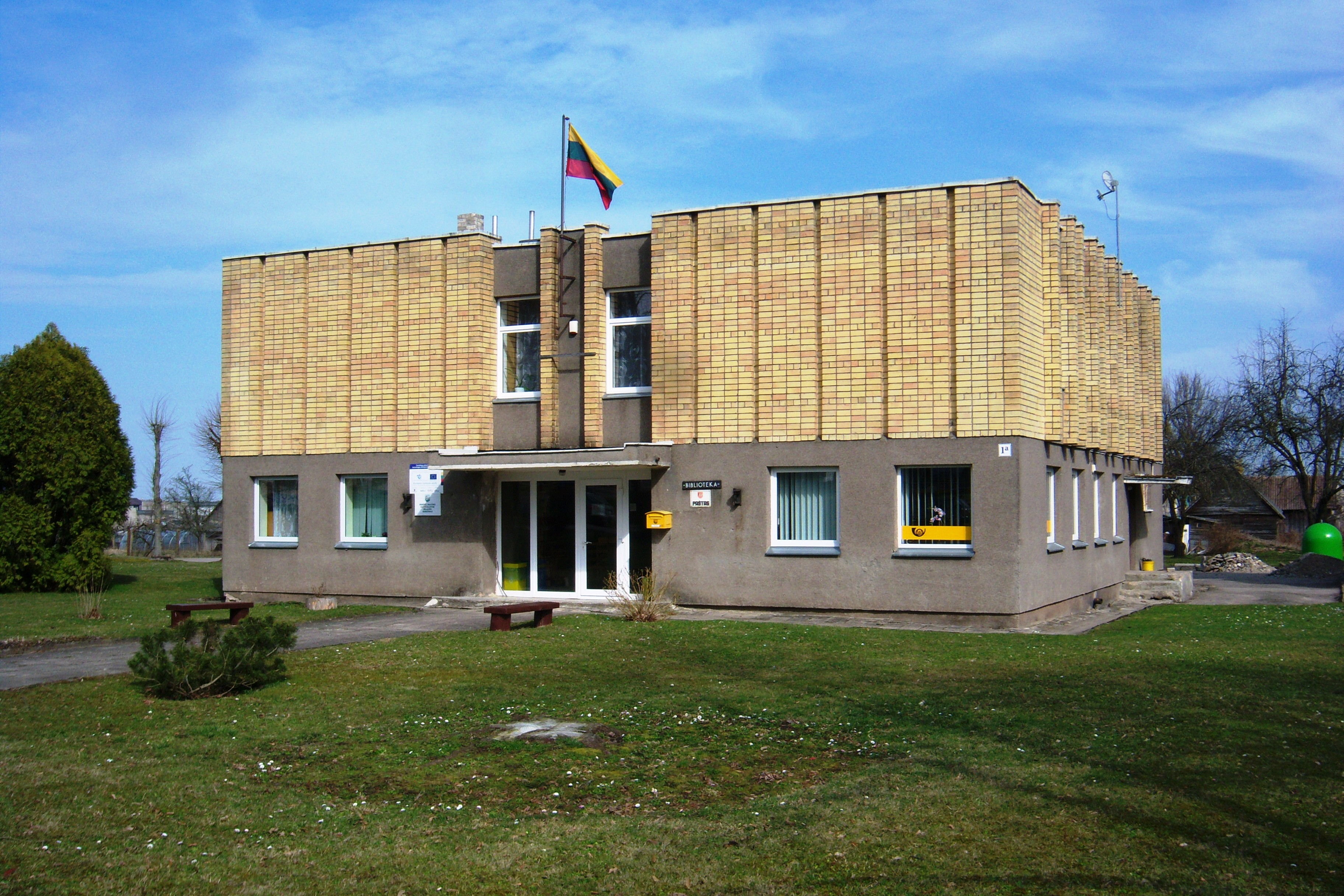 Išlaužas Eldership, Prienai district, Lithuania